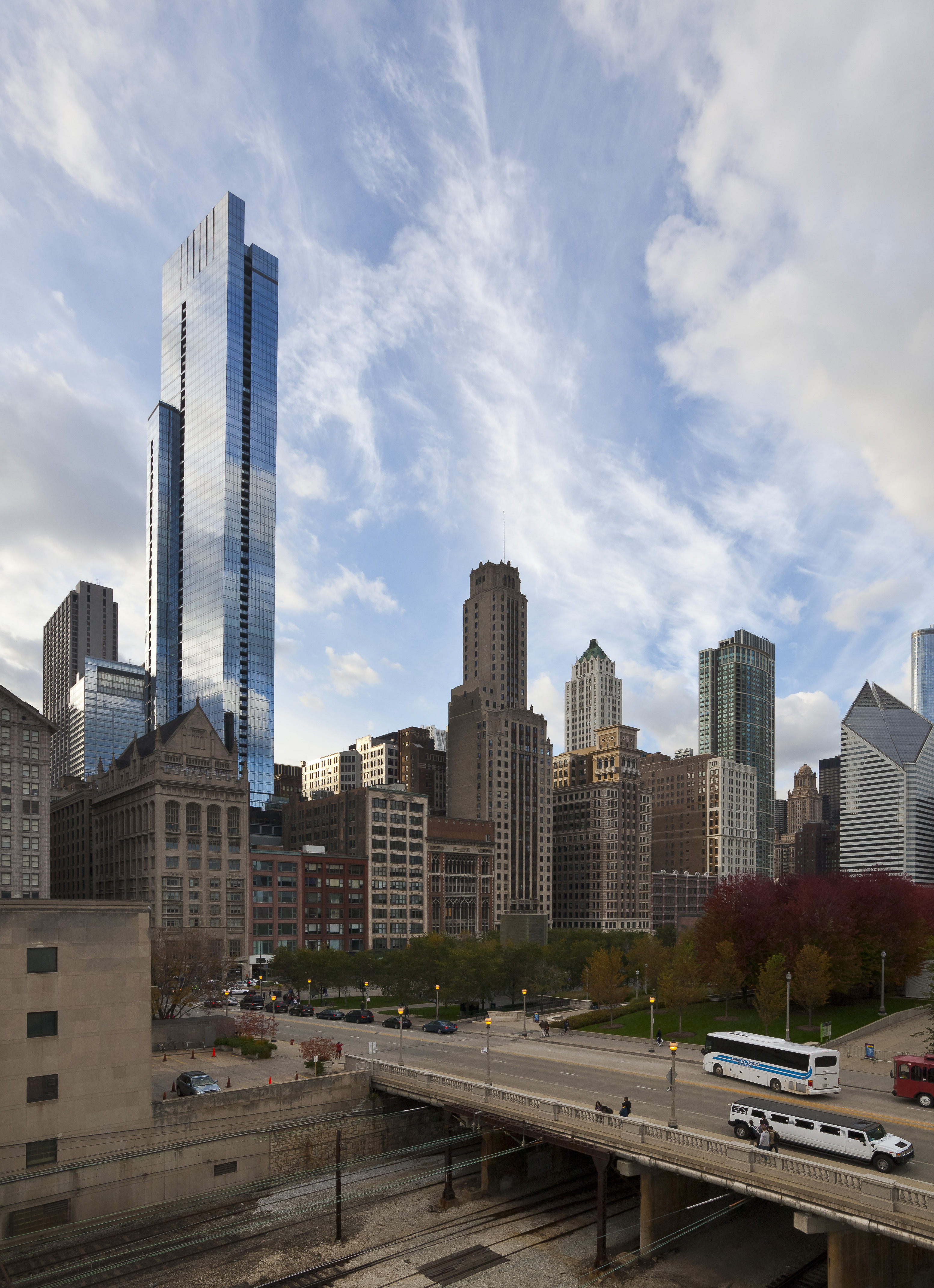 E Monroe Dr, Chicago, Illinois, USA